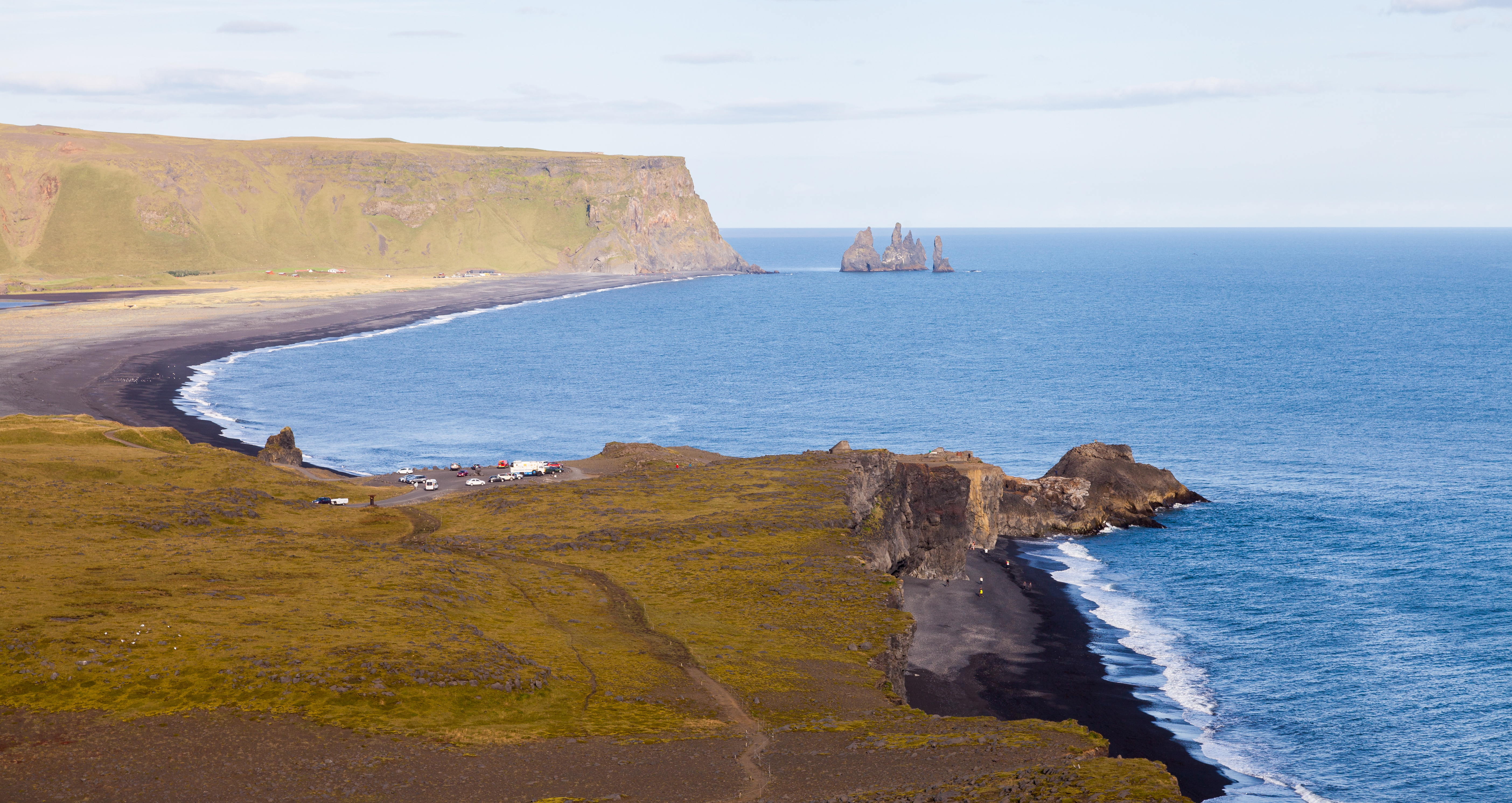 Reynisfjara, Suðurland, Iceland